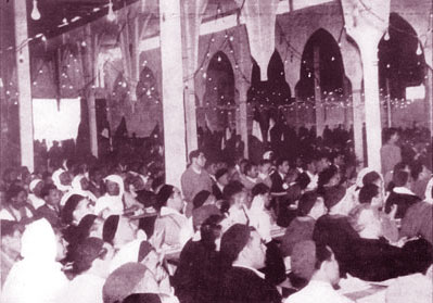 Dar_slim_-_Participation_-_Neo_destour_congress. Tunisia